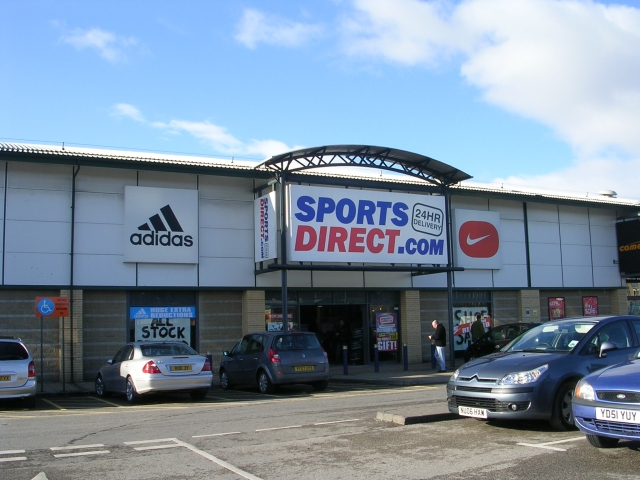 Sports Direct - Forster Square Retail Park